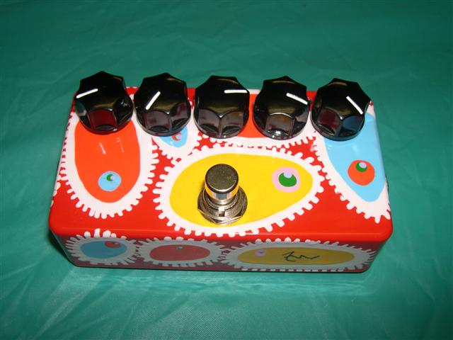 Picture taken by Derek Sorenson in his garage. --Hector 19:33, 20 July 2006 (UTC)